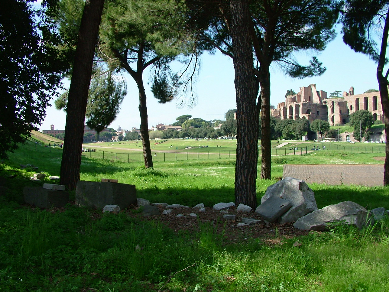 Rome, Circus Maximus - Vista del Circo Massimo in Roma